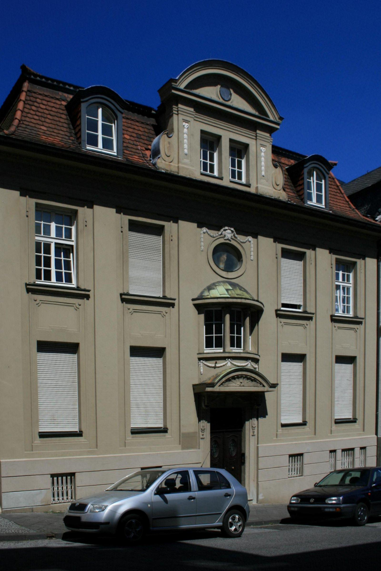 Cultural heritage monument No. G 013 in Mönchengladbach